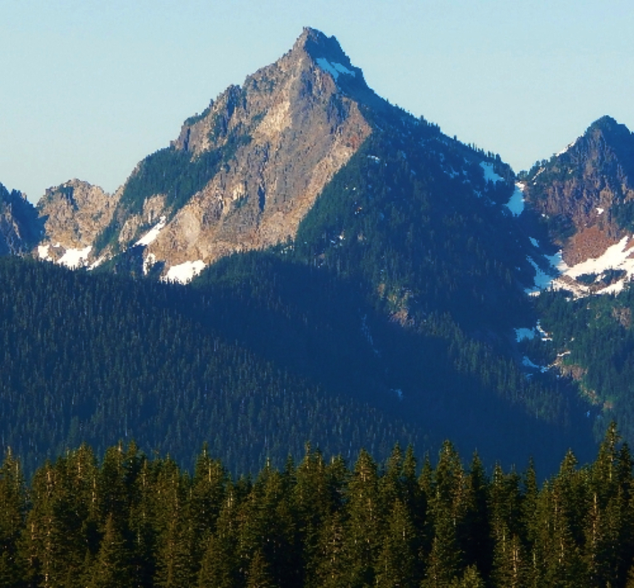 Kaleetan Peak as seen from the Bandera Mountain trail on July 2, 2014.